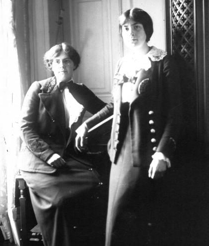 French composers Nadia Boulanger (1887-1979) and Lili Boulanger (1893-1918) in 1913.